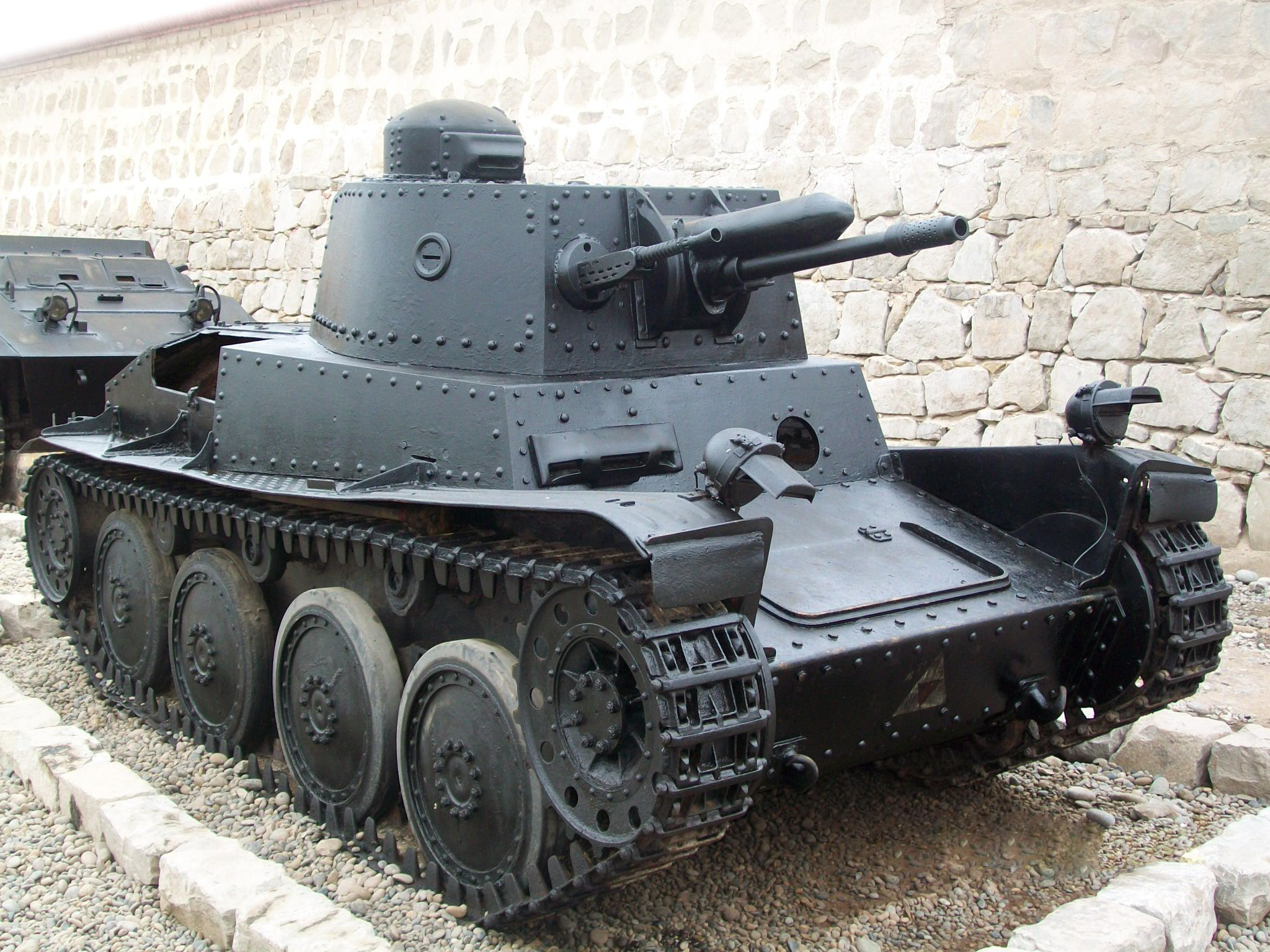 Czech manufactured LTP tank preserved at the Real Felipe Fortress. These tanks served with the Peruvian Army in the 1941 Ecuadorian-Peruvian War.